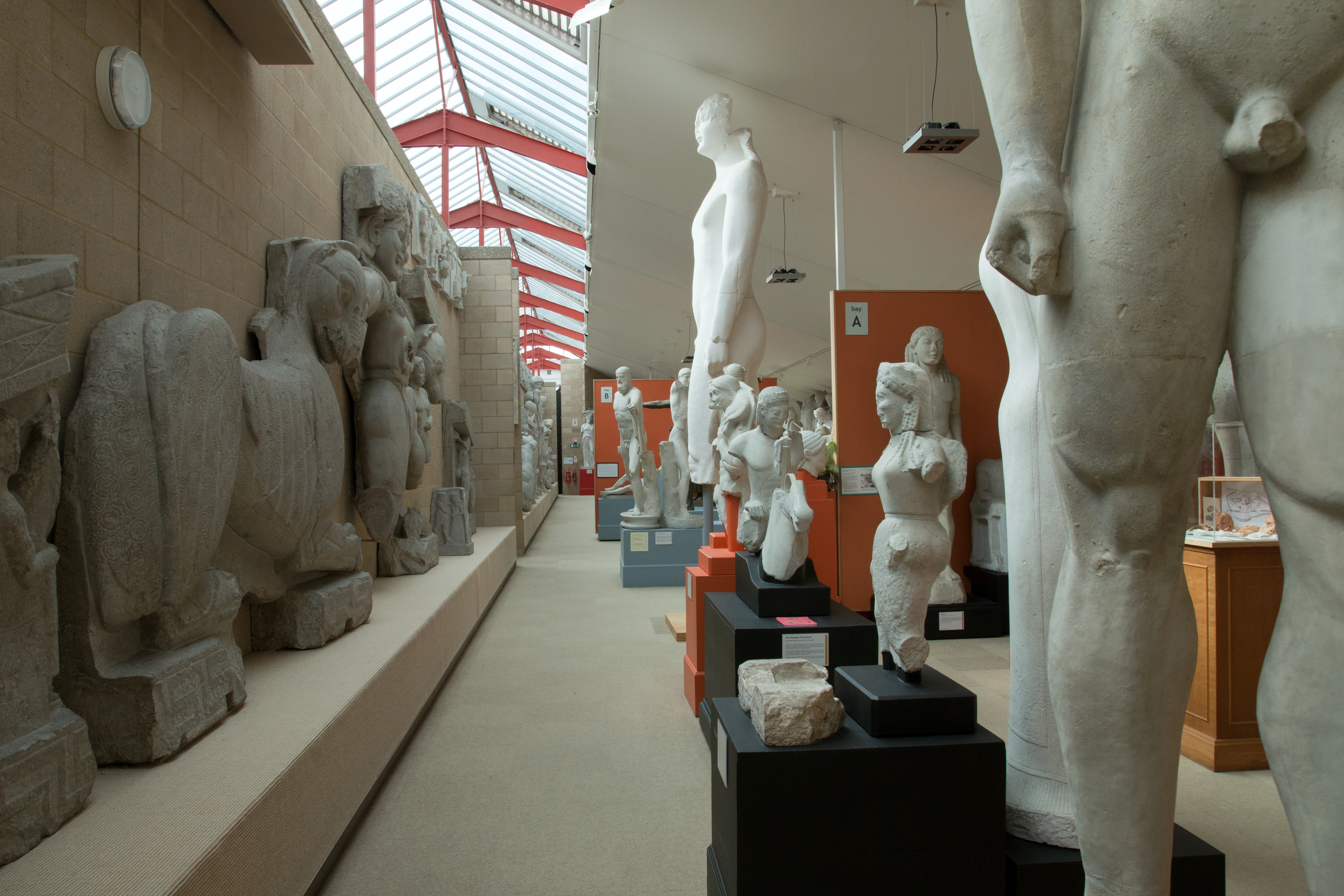 Plaster casts of archaic Greek sculpturues. Cambridge Museum of Classical Archaeology.